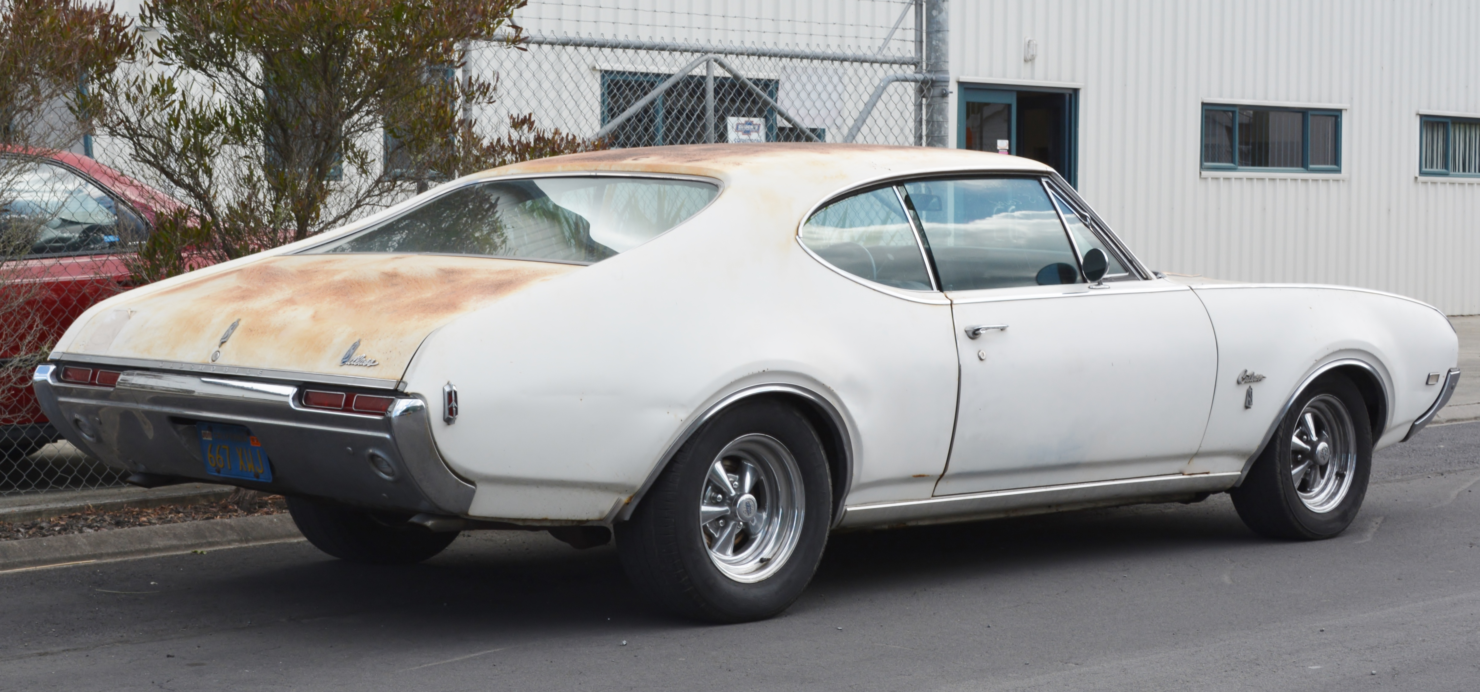 68 Oldsmobile Cutlass,WestAuckland,New Zealand